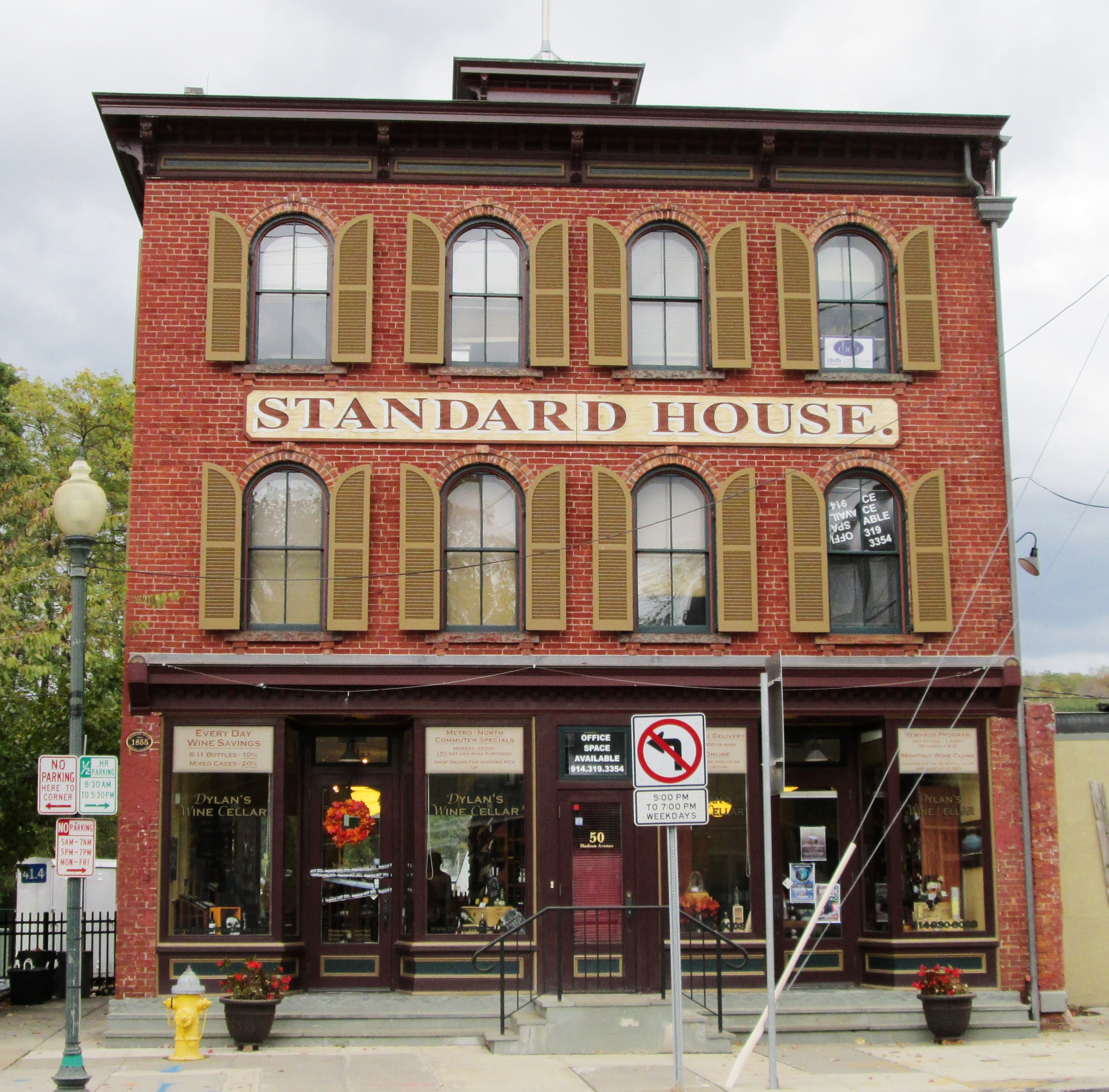 The Standard House is a former hotel located at 50 Hudson Street between South Water Street and the tracks of the Metro-North Hudson Line. Built in 1855, if fell into disrepair with the decline of Peekskill's waterfront industrial area, but was renovated from 1998-2001.